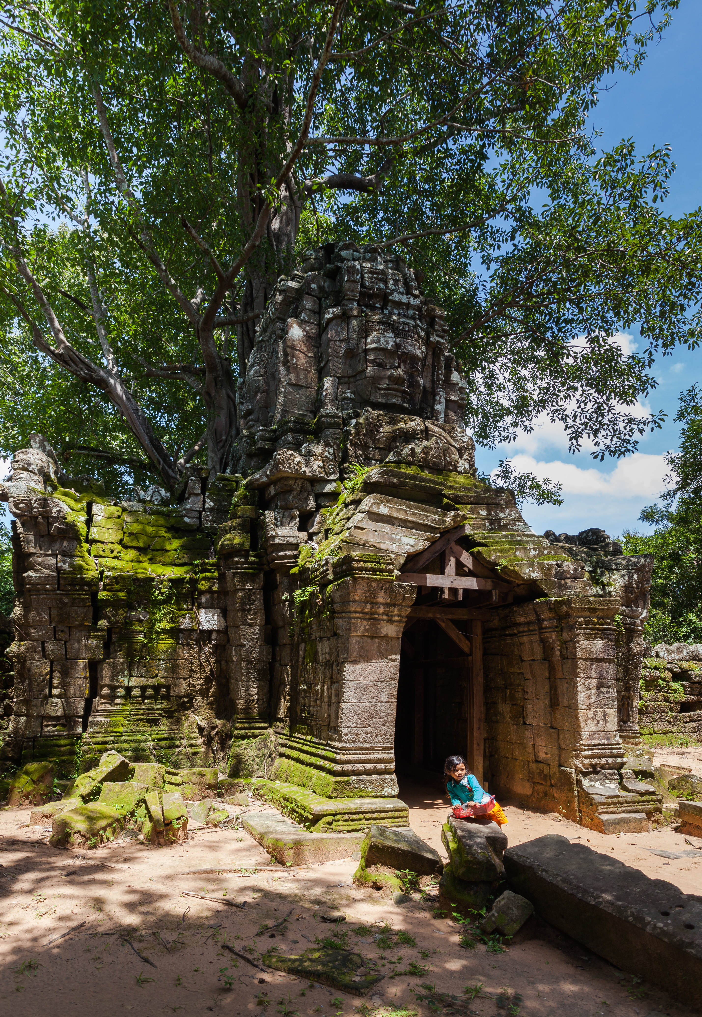 Ta Som, Angkor, Cambodia